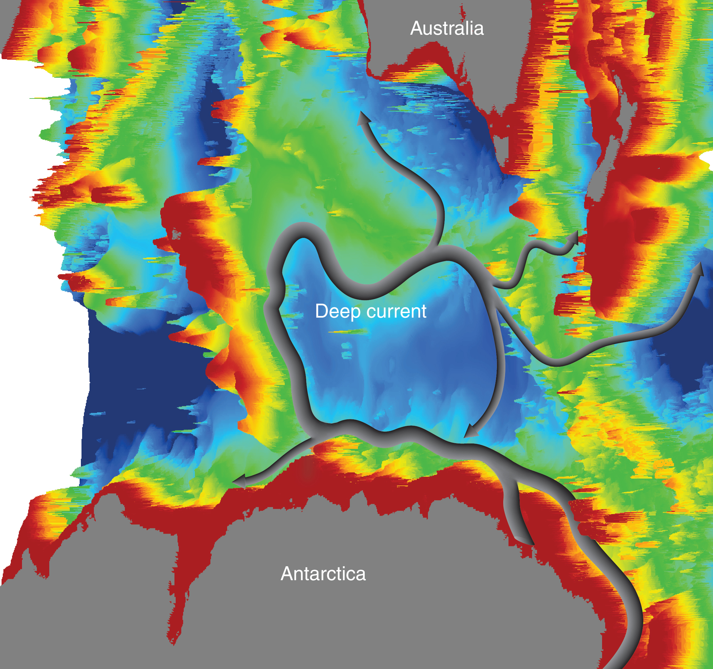 Japanese and Australian scientists have discovered a deep ocean current with a volume equivalent to 40 Amazon Rivers near the Kerguelen plateau, in the Indian Ocean sector of the Southern Ocean, 4,200 kilometres south-west of Perth. The current , more than three kilometres below the Ocean's surface, is an important pathway in a global network of ocean currents that influence climate patterns. It carries dense, oxygen-rich water that sinks near Antarctica to the deep ocean basins further north. Without this supply of Antarctic water, the deepest levels of the ocean would have little oxygen. While earlier expeditions had detected evidence of the current system, they were not able to determine how much water the current carried. The joint Japanese-Australian experiment deployed current-meter moorings anchored to the sea floor at depths of up to 4500m. Each mooring reached from the sea floor to a depth of 1000m and measured current speed, temperature and salinity for a tw